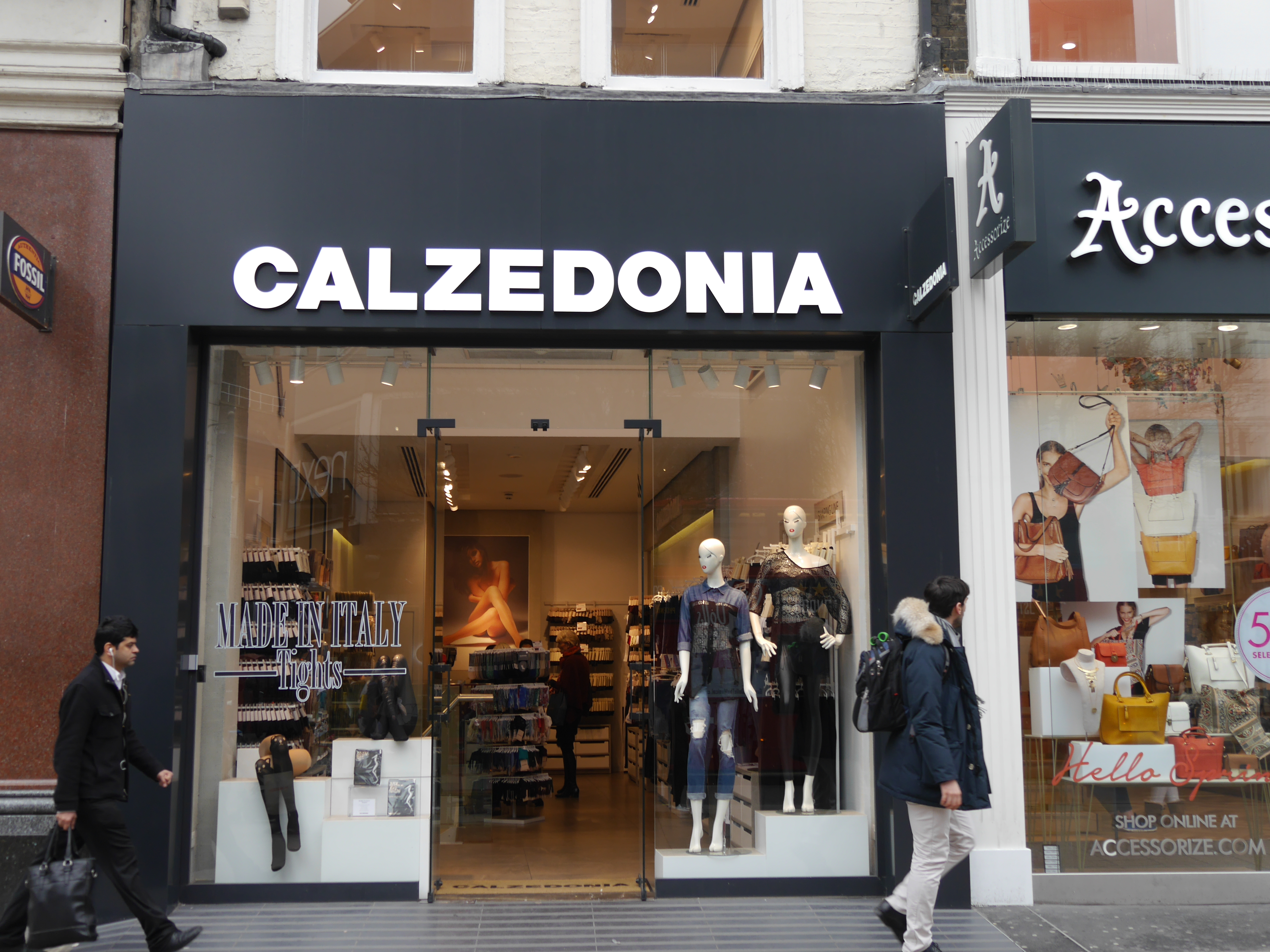 Oxford Street, London, March 2016